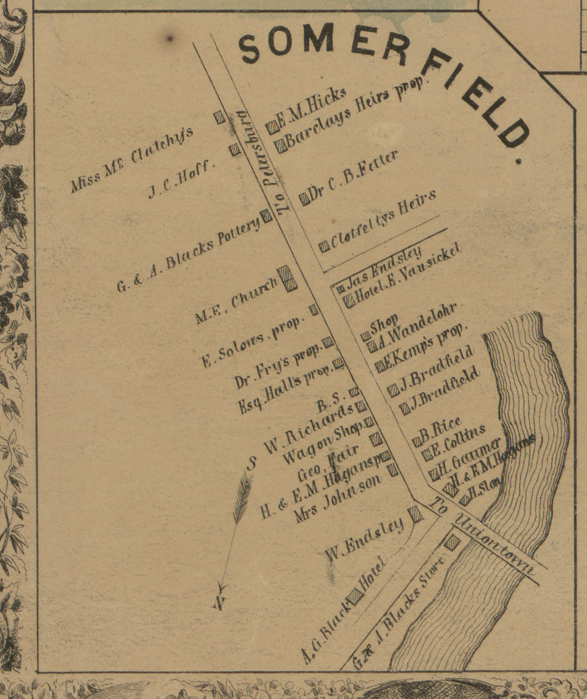 Map of Somerfield, Somerset County, Pennsylvania, taken from 1860 Edward L. Walker map of Somerset County available at the Library of Congress website